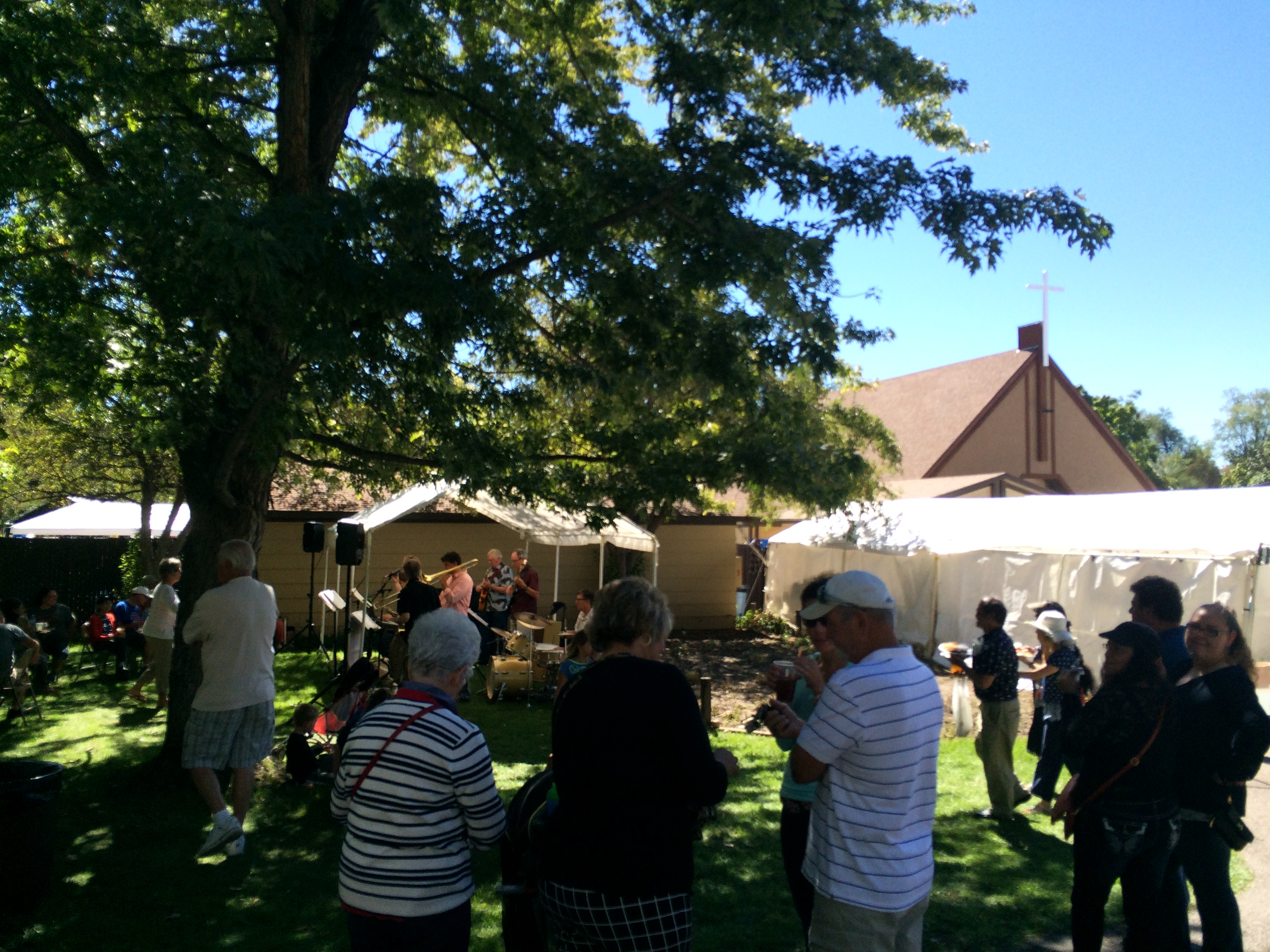 Carmelite Festival 2015 live band with the Carmelite Monastery of Salt Lake City seen in back.